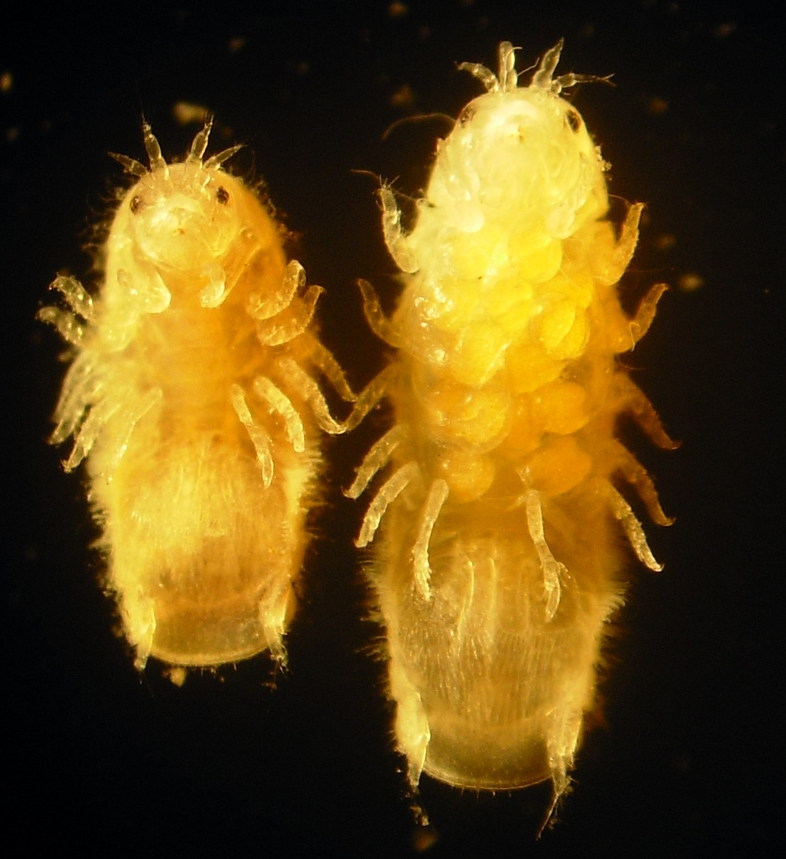 Limnoria quadripunctata, male and female, ventral view.